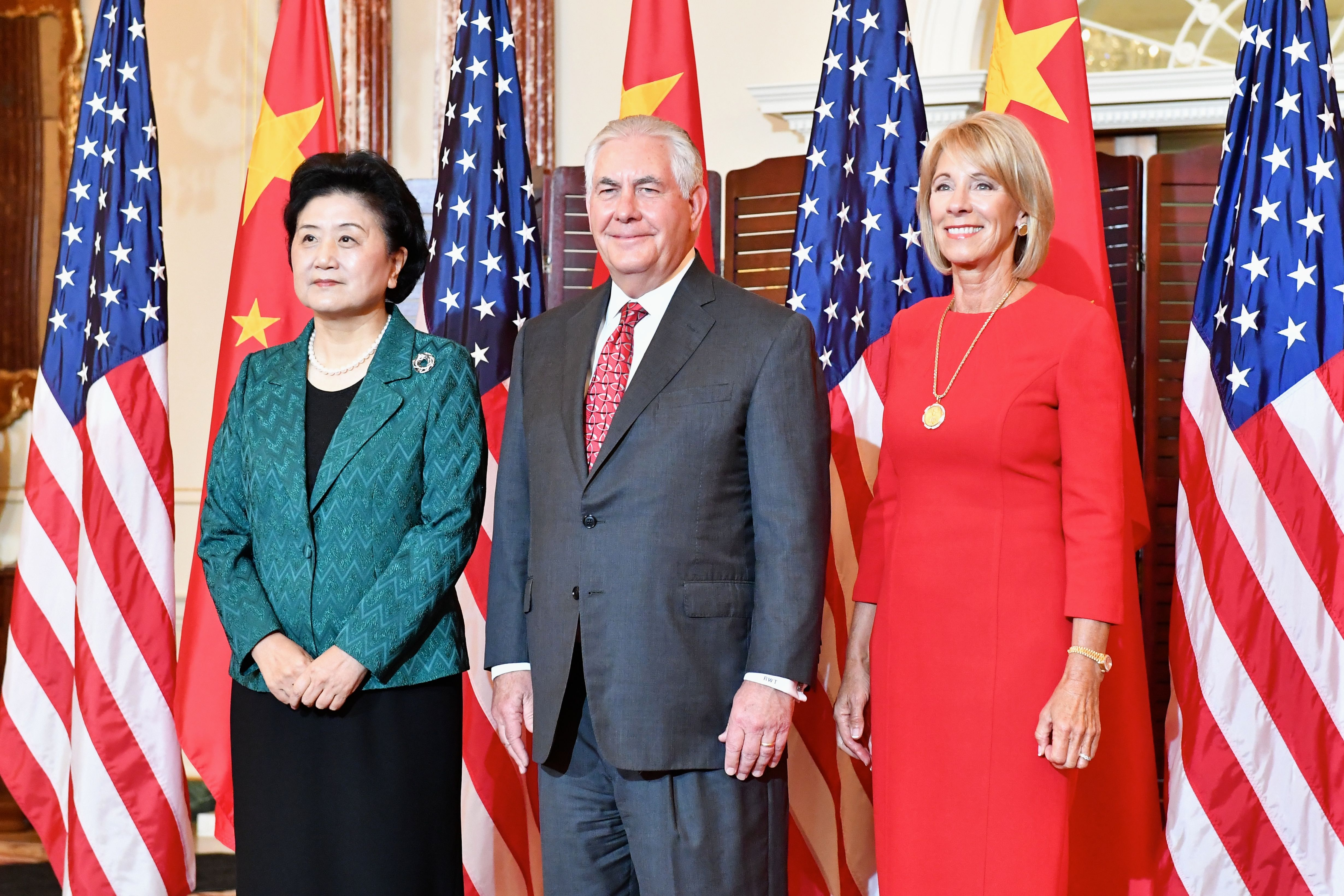 U.S. Secretary of State Rex Tillerson poses for a photo with Chinese Vice Premier Liu Yandong and U.S. Secretary of Education Betsy DeVos before hosting a working breakfast for Chinese Vice Premier Liu Yandong for the U.S. - China Social & Cultural Dialogue at the U.S. Department of State in Washington, D.C. on September 28, 2017. [State Department Photo/ Public Domain]